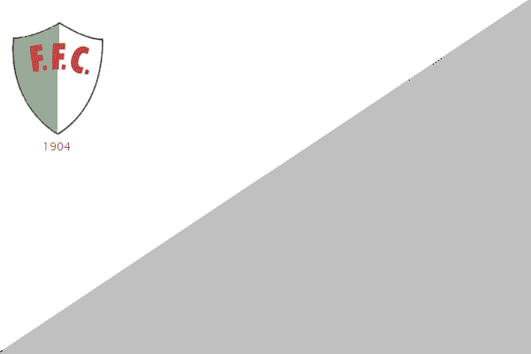 Fluminense Football Club